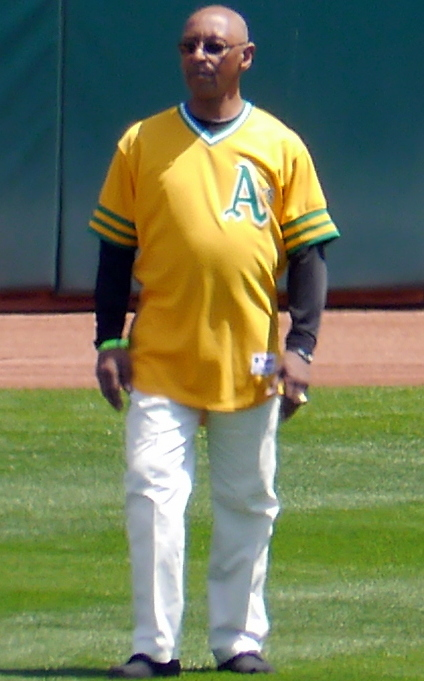 Coco Crisp (left) and Billy North stand in the outfield during a pre-game ceremony at O.co Coliseum in 2013